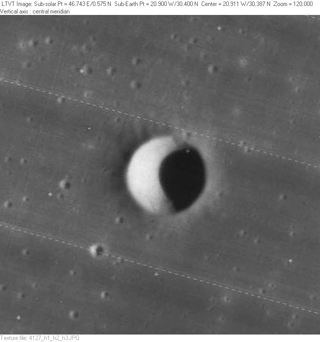 Moon craterMc Donald. Detail from Lunar Orbiter IV-127H. High resolution scans from the USGS Lunar Orbiter Digitization Project remapped to a north-up aerial view by LTVT.